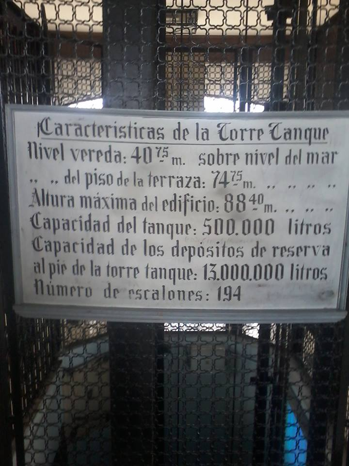 Información sobre la Torre Tanque